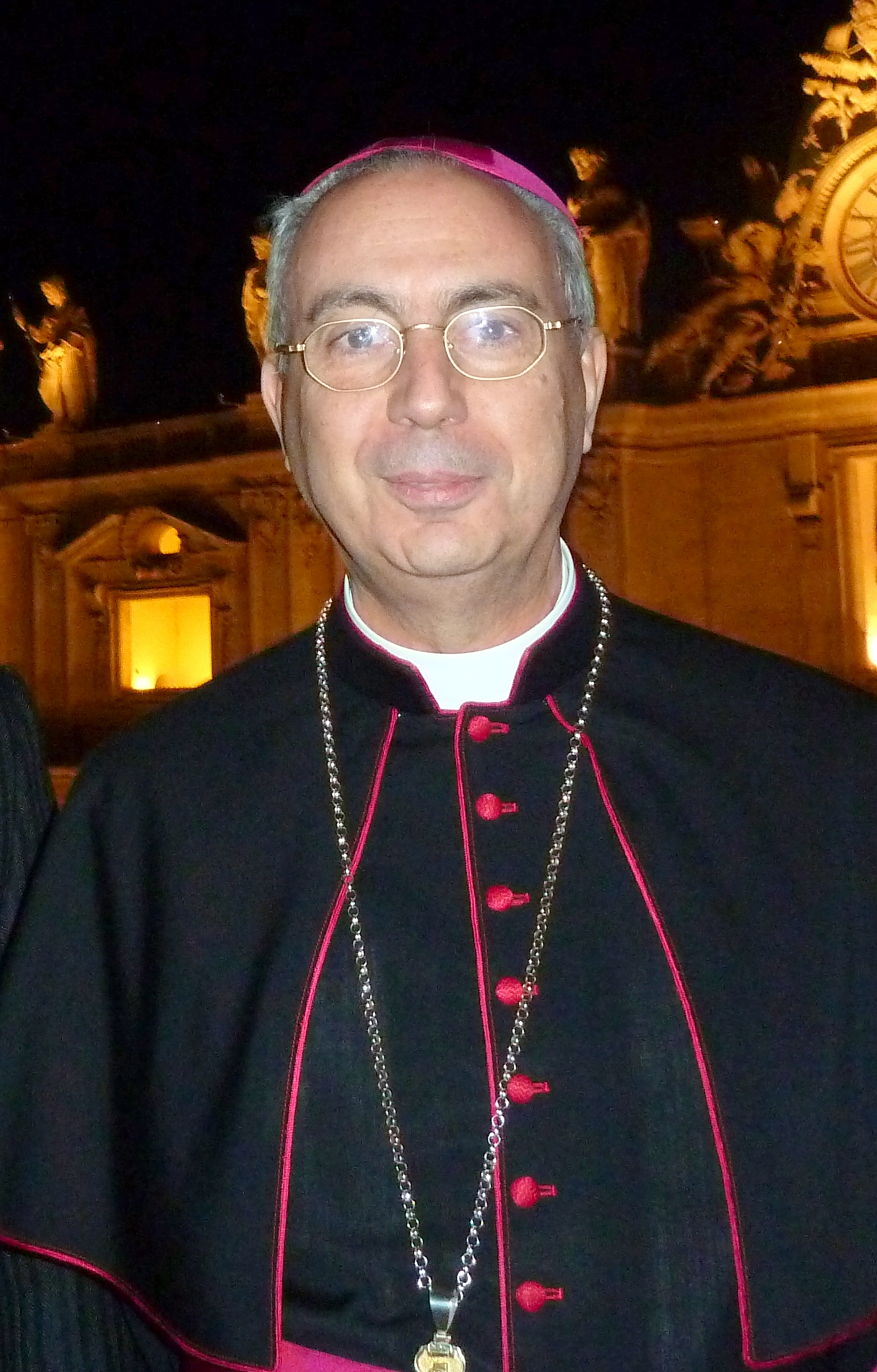 Archbishop Dominique Mamberti, Secretary for Relations with States of the Hol See, 14 Dec 2010.